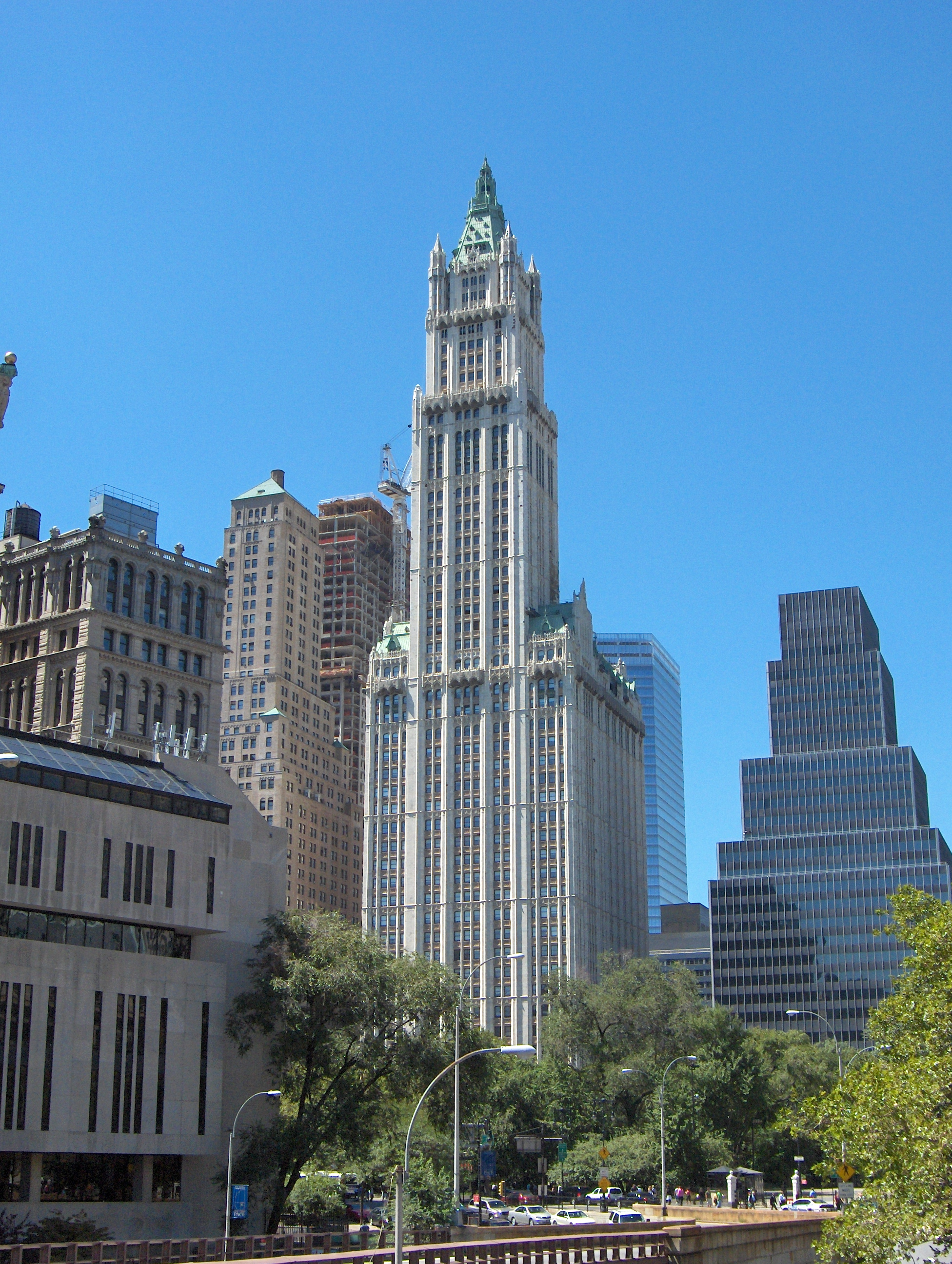 The Woolworth Building, New York City